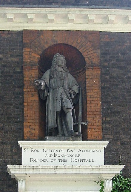 The Geffrye Museum Sir Robert Geffrye's will dated February 1703-4, directed that the residue of his real and personal estate should be paid to the Ironmongers' Company to purchase a piece of ground for an almshouse. The building was opened to the public in 1914 as the Geffrye Museum.